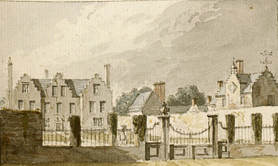 Faenol Fawr, Bodelwythen